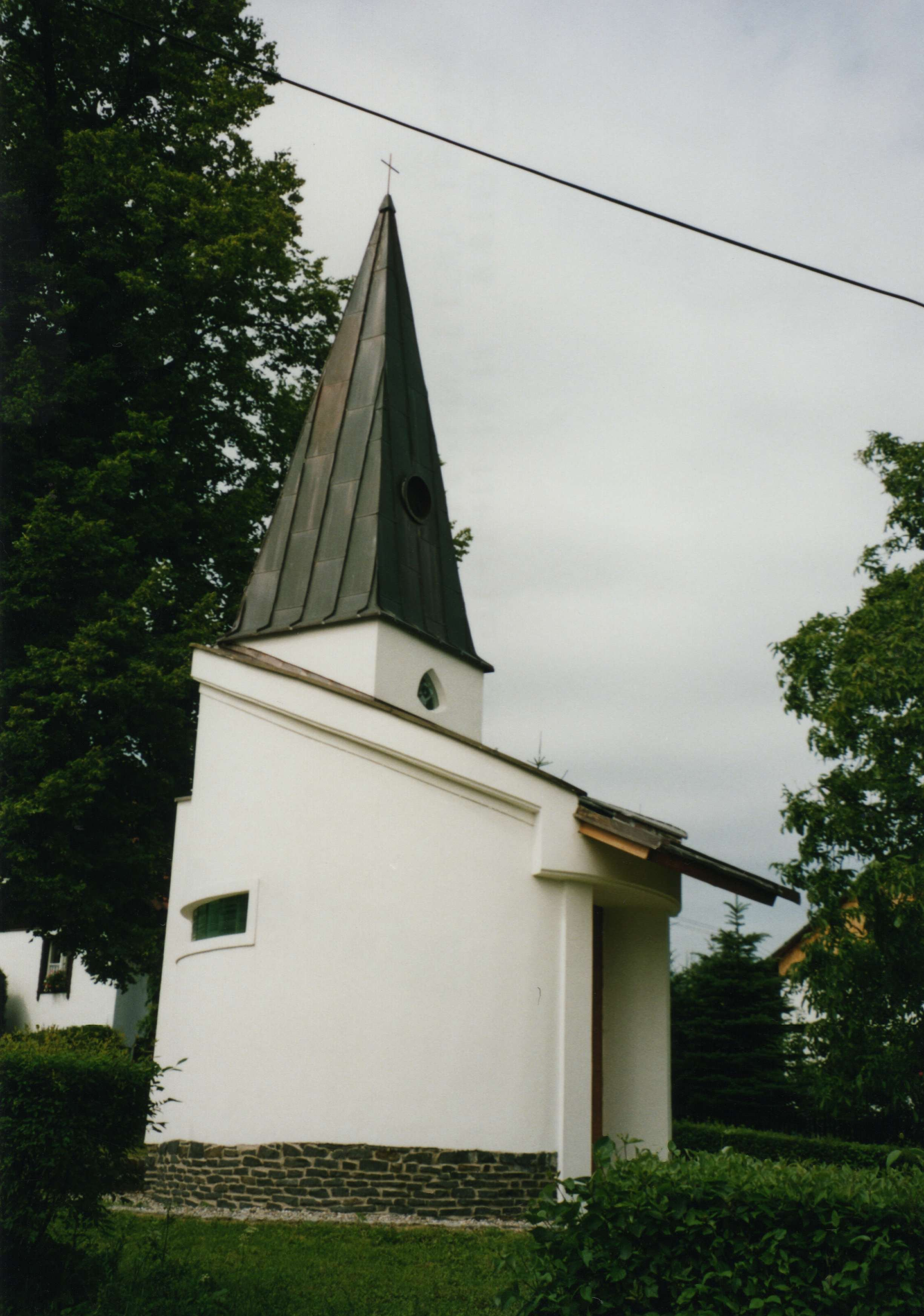 Saint Wenceslaus modern chapel of in Bílka (Bořislav) from 2000, Teplice District, Ústí nad Labem Region, Czech Republic